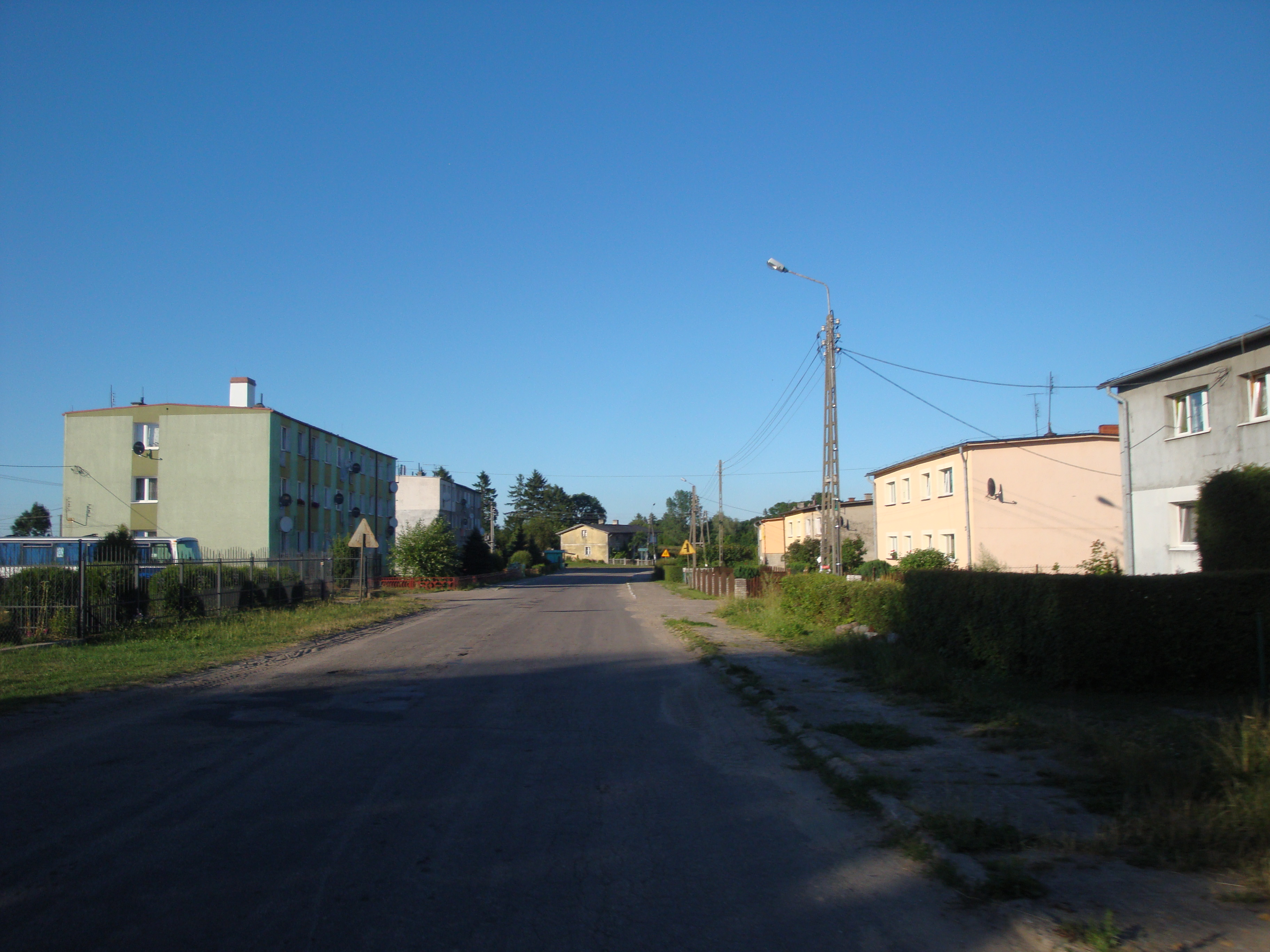 Stowęcino-village in Pomeranian Voivodeship, Poland.